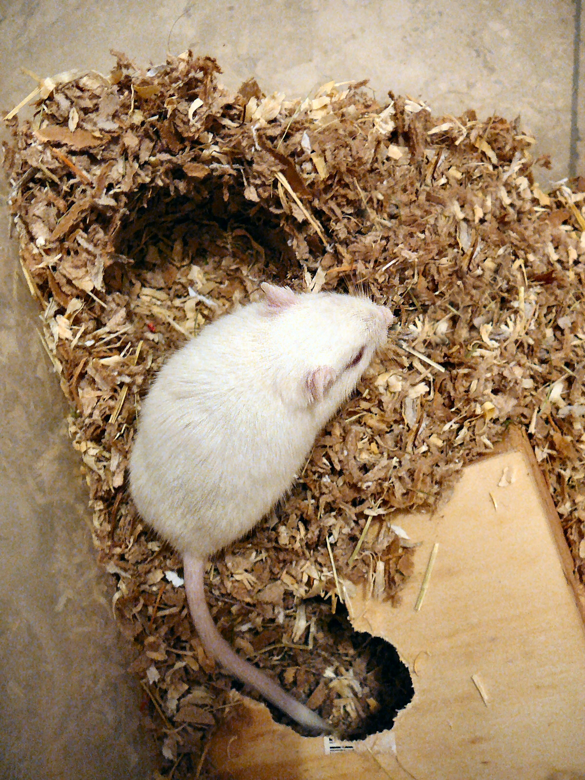 Pet Gerbil (Meriones_unguiculatus)_- 2,5 months old_albinos_young male_&_double_nest (wood and paper).